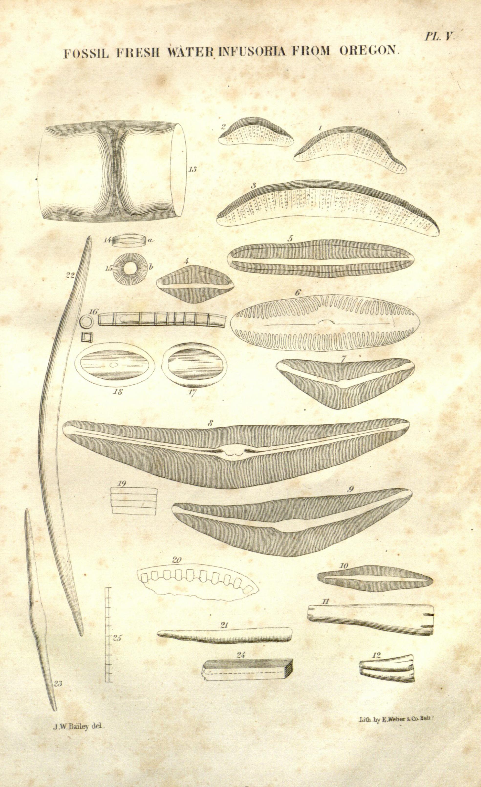 Report of the exploring expedition to the Rocky Mountains in the year 1842, and to Oregon and North California in the years 1843-'44 /by J.C. Frémont.